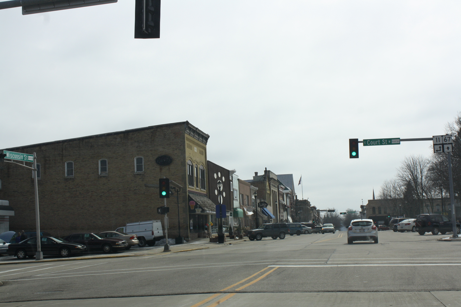 Looking south in downtown Elkhorn, Wisconsin on Wisconsin Highway 11 / Wisconsin Highway 67.